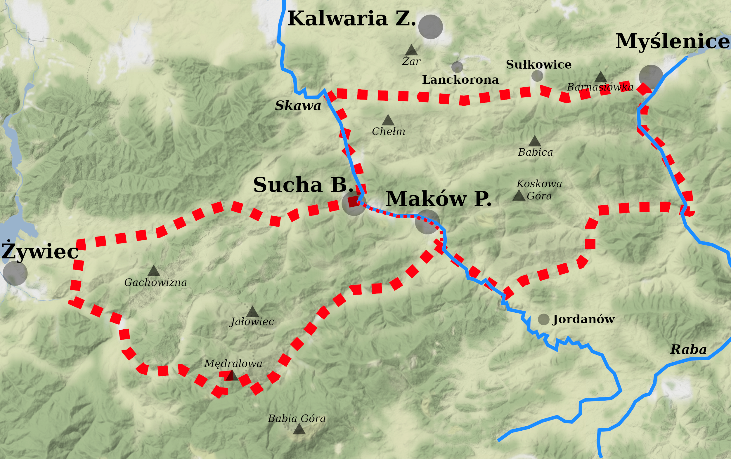 Beskid Makowski according to Jerzy Kondracki; The background is the Stamen Terrain from